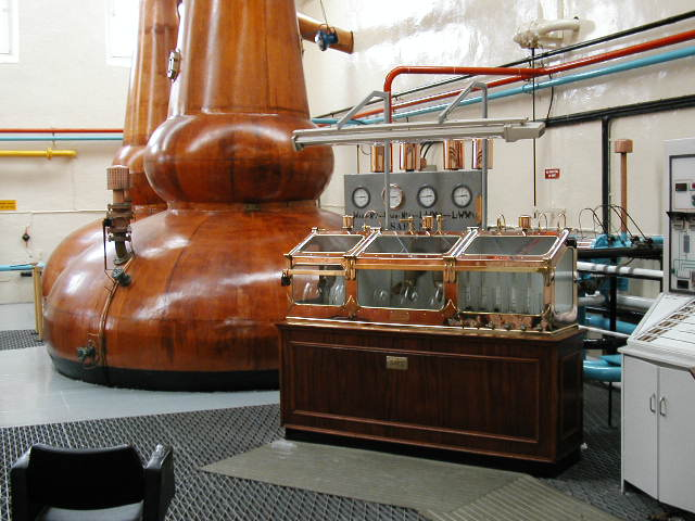 Photographer: Petter Strandmark Year: 2001